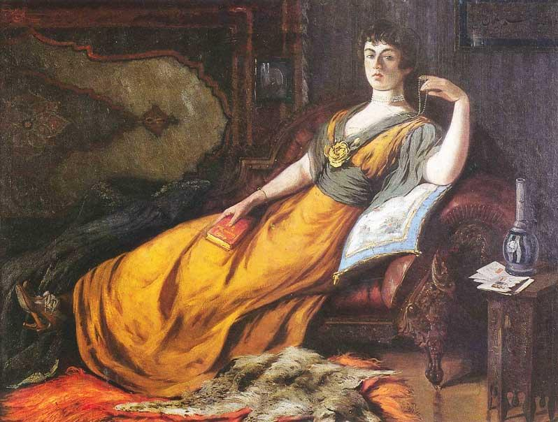 Circassian Şehsuvar Kadınefendi (2 May 1881 – c. 1945) was the first wife of Abdulmejid II, the last Caliph of the Muslim world, and the mother of Şehzade Ömer Faruk Efendi of the Ottoman Empire.